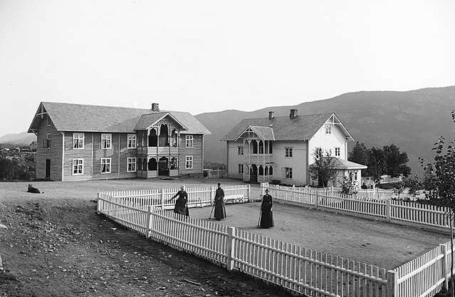 Photo from 1880-1890 Frydenlund Hotel, Knut Hamsun stayed here in 1884 - 1885 Photo by Axel Lindahl Owner of work is Norsk Folkemuseum